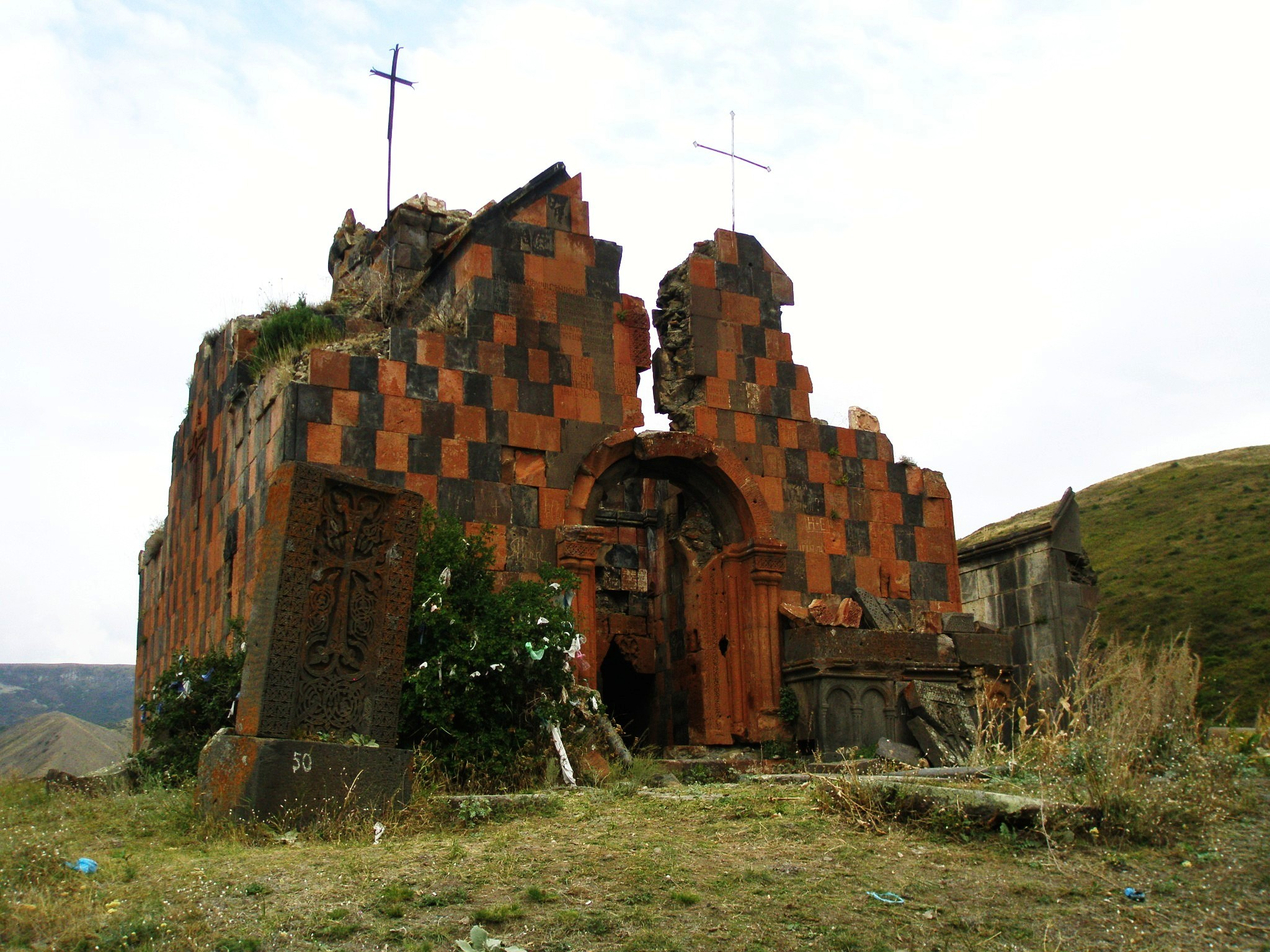 Amenaprich Church of Havuts Tar 99.4/3.1